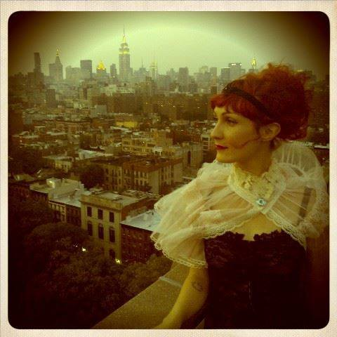 Following one memorable gig in New York City Emma Dean stepped out onto the balcony to be greeted by the breathtaking New York City skyline.